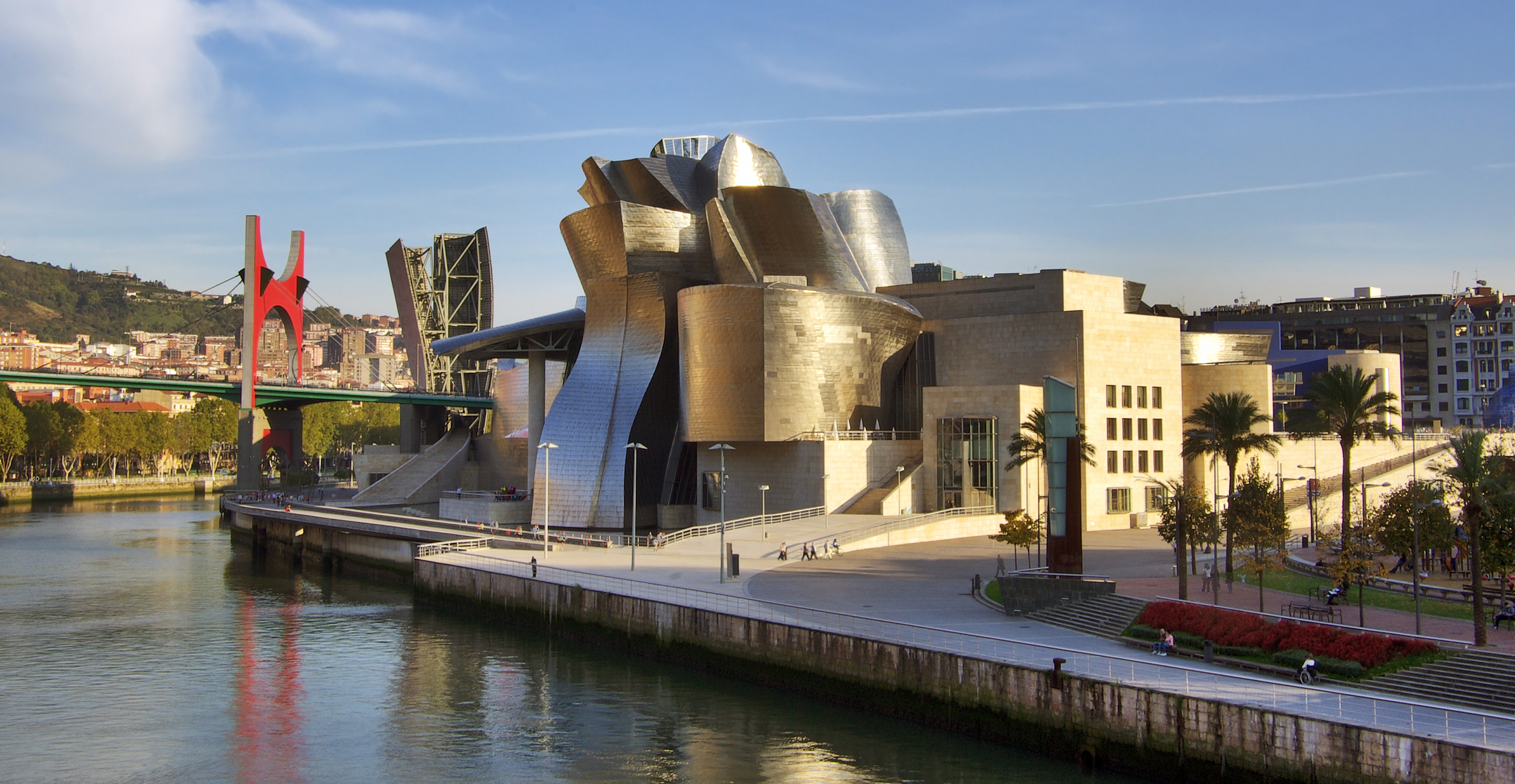 HDR image of the Guggenheim museum Bilbao